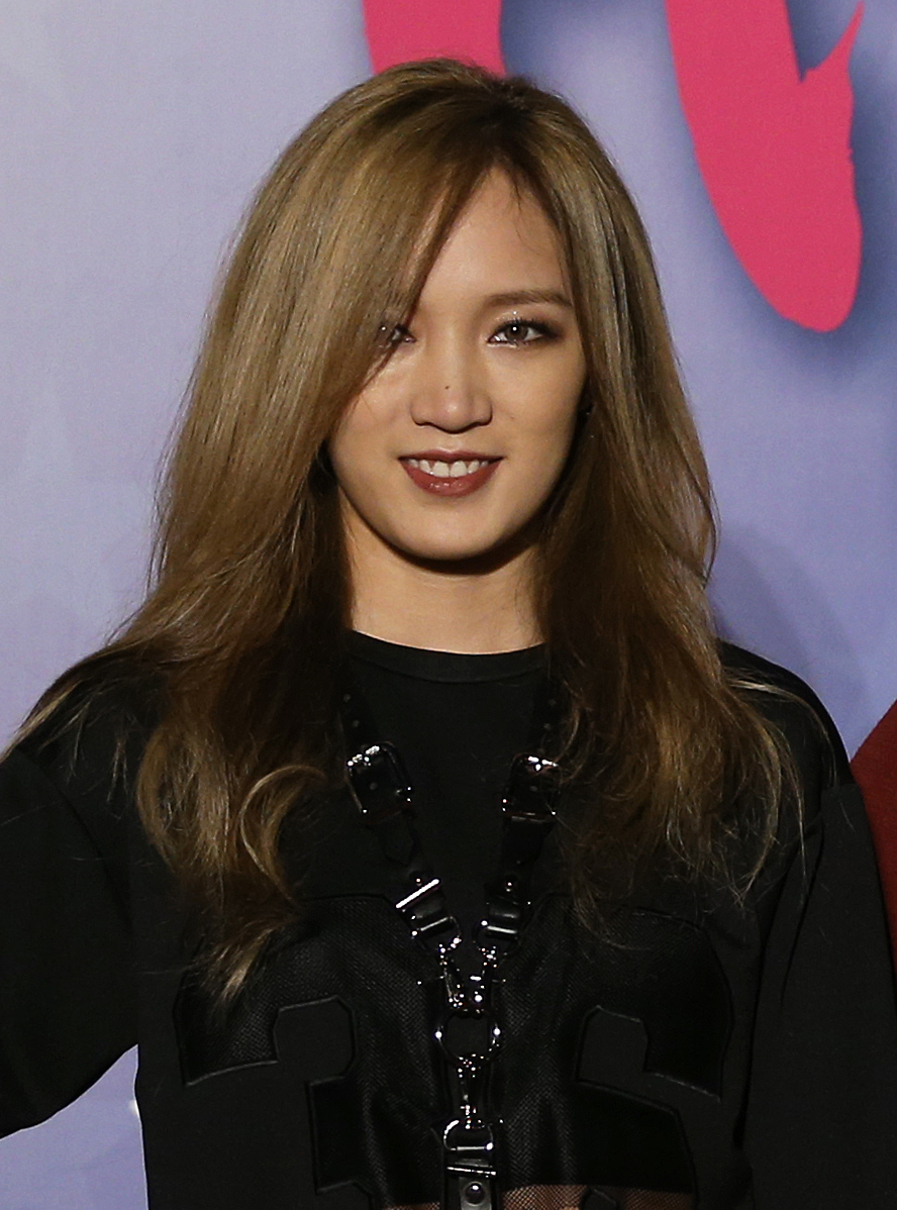 2013 K-POP World Festival in Changwon-si, Gyengsangnam-do October 20, 2013